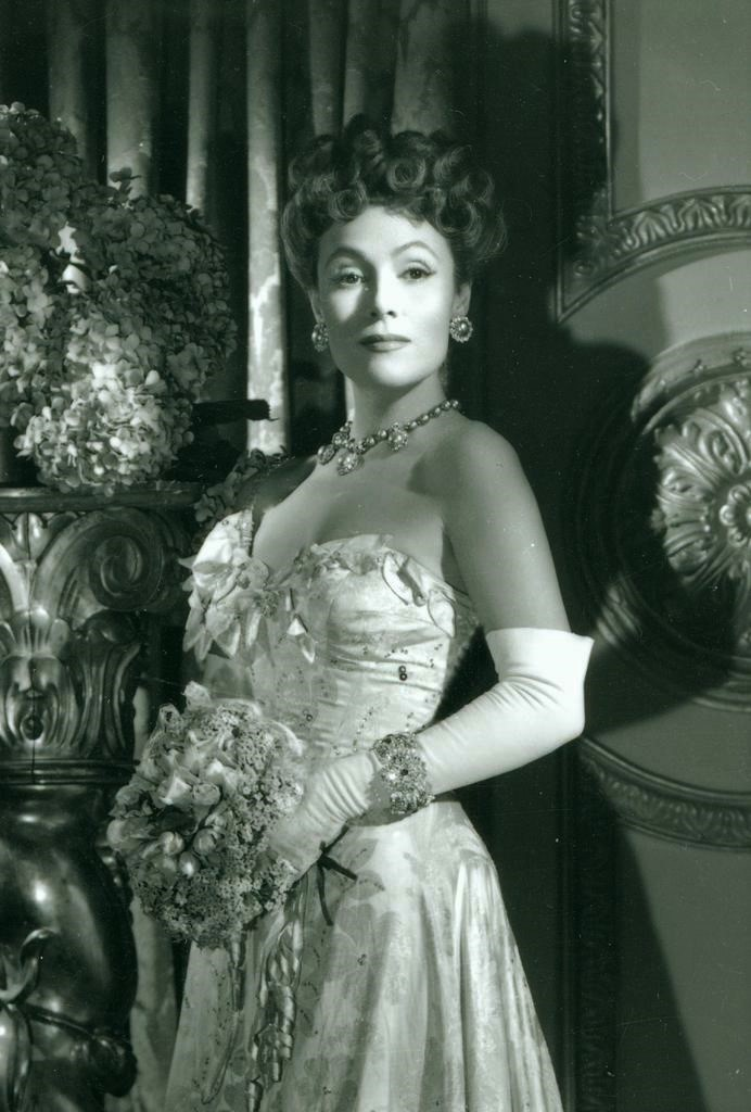 Portrait of Dolores del Río. Photograph by Annemarie Heinrich, c. 1948